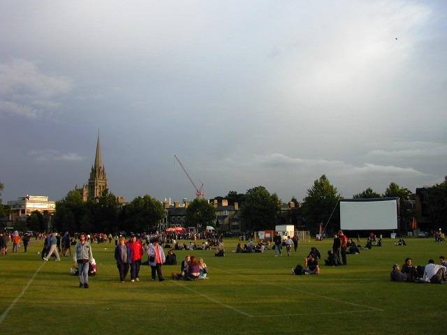 Cambridge Film Festival with giant inflatable screen (AIRSCREEN)